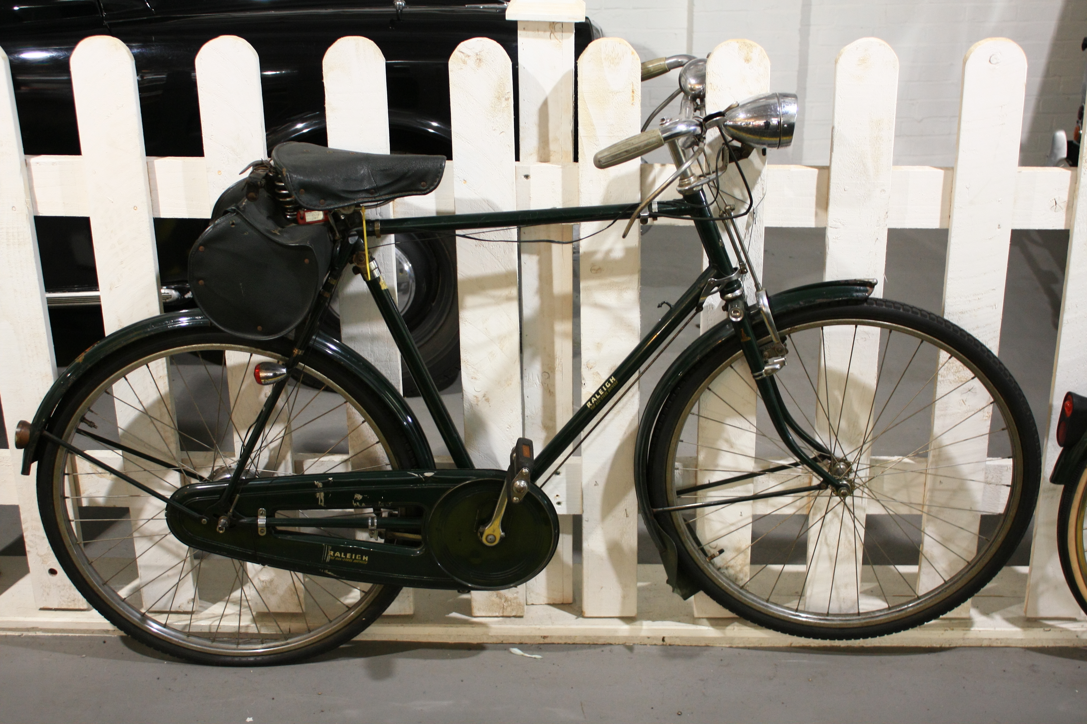 Raleigh Roadster MADE IN ENGLAND